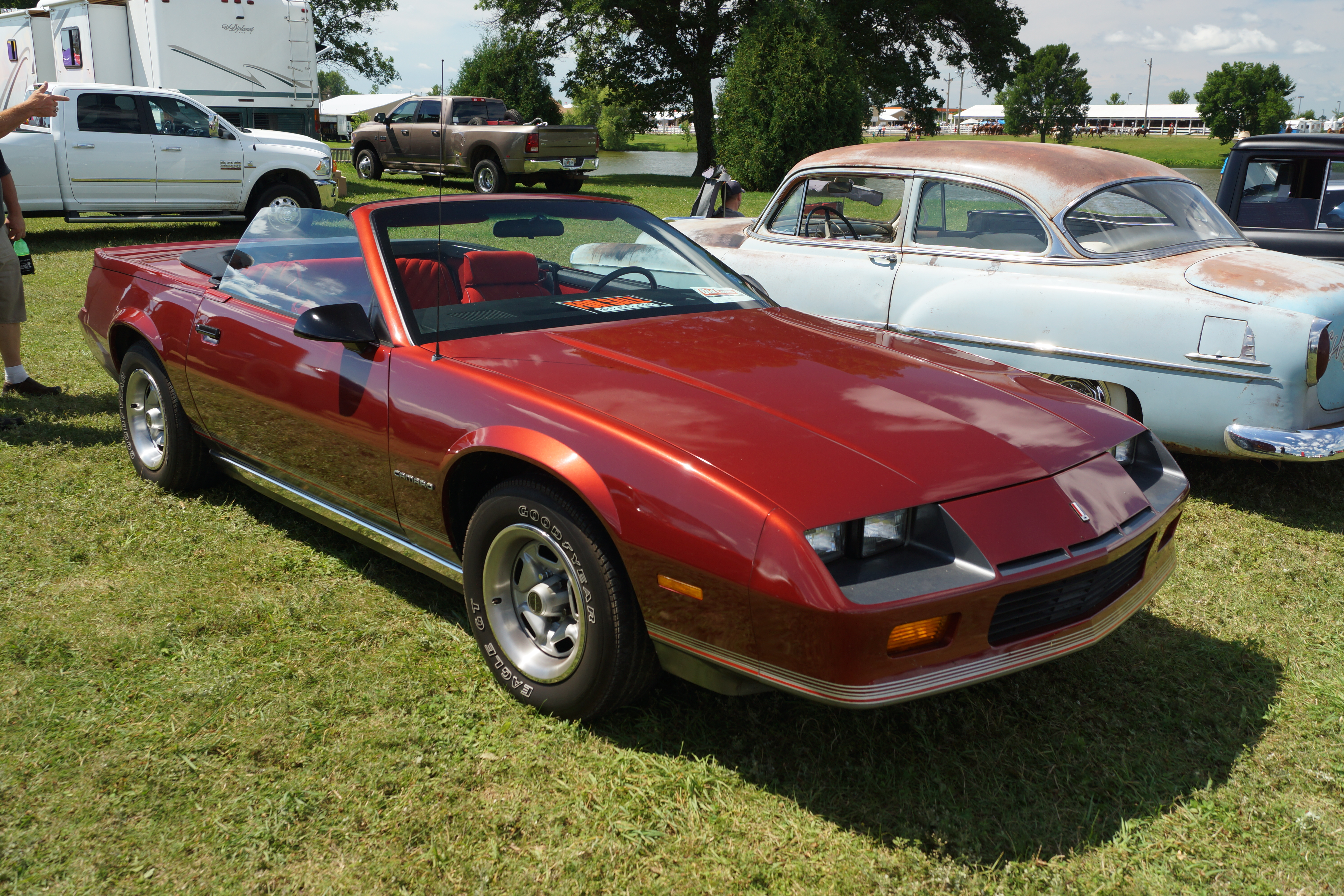 Isanti County Fair Car Show Isanti County Fairgrounds Cambridge, Minnesota July 2016 Click here for more car pictures at my Flickr site.